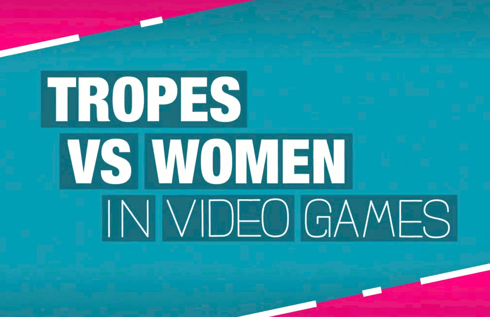 Screen capture of Anita Sarkeesian's Tropes vs Women in Video Games